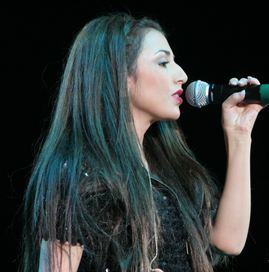 Aundrea Fimbres at the Tacoma Dome for Jingle Bell Bash 9